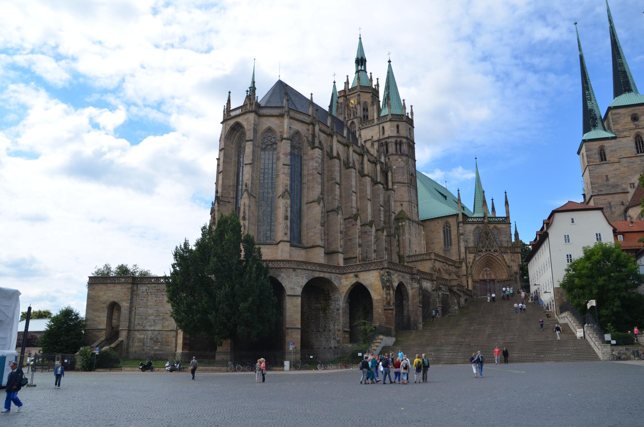 Dom in Erfurt, Thuringia, Germany